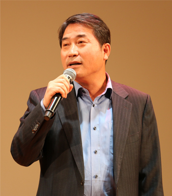 DASAN Networks CEO MinWoo Nam